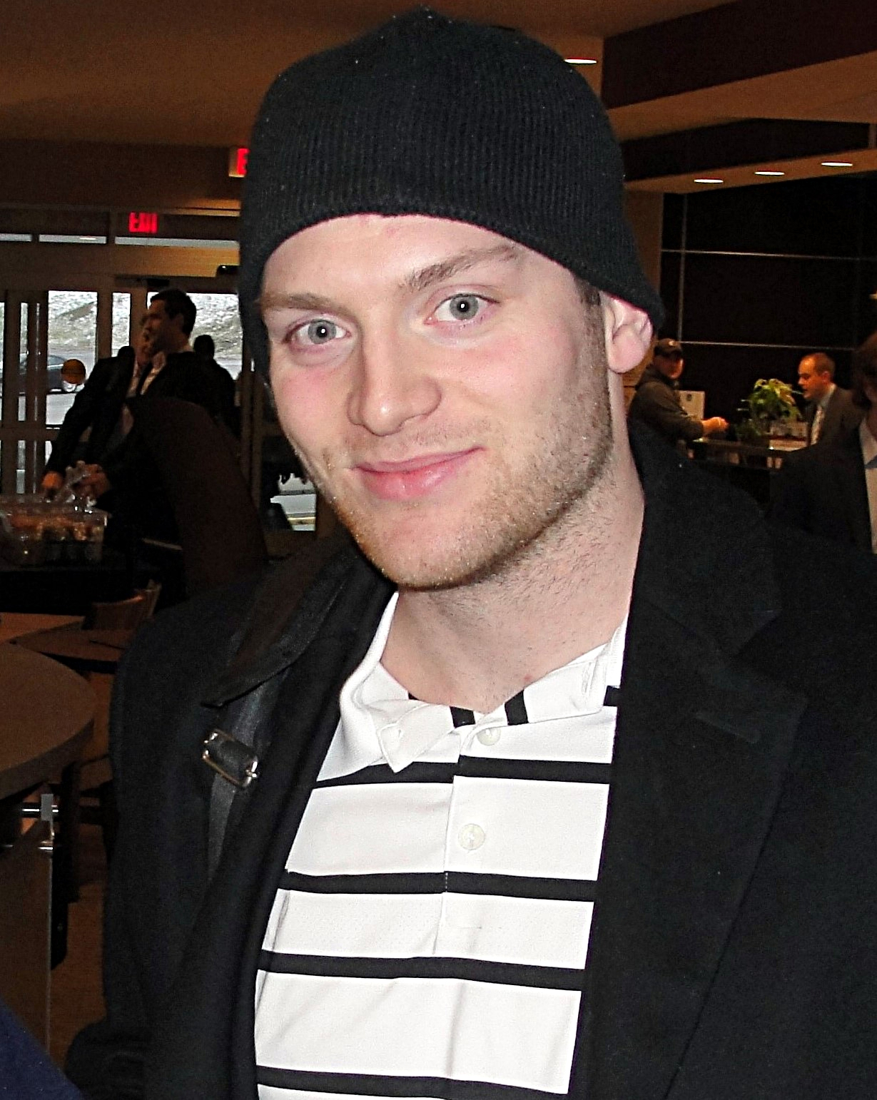 Columbus Blue Jackets forward Mark Letestu photographed during the 2011-12 season on a return trip to Pittsburgh to play his former team, the Penguins.